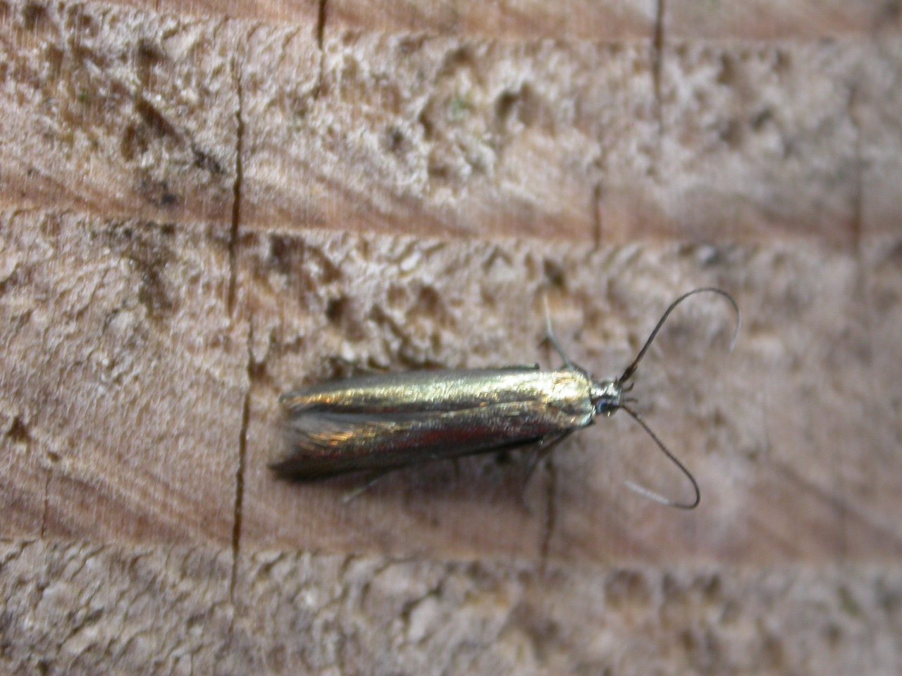 Coleophora sp., possibly frischella, to MV light, Hellerup, Denmark, 5 August 2003